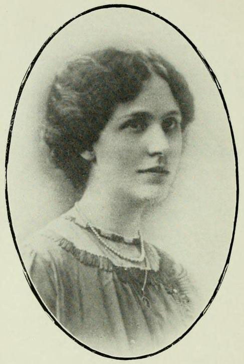 Delfina Bunge de Gálvez (1881 - 1952), an Argentine poetess and writer.